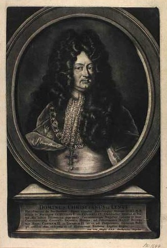 Christian von Lente (1649-1725), Danish courtier and politician